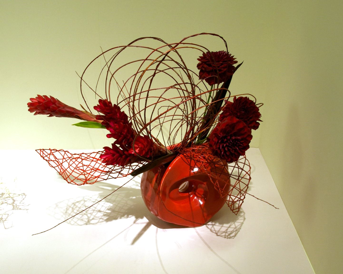 Sōgetsu-ryū ikebana arrangement. Exhibition held in Japan.